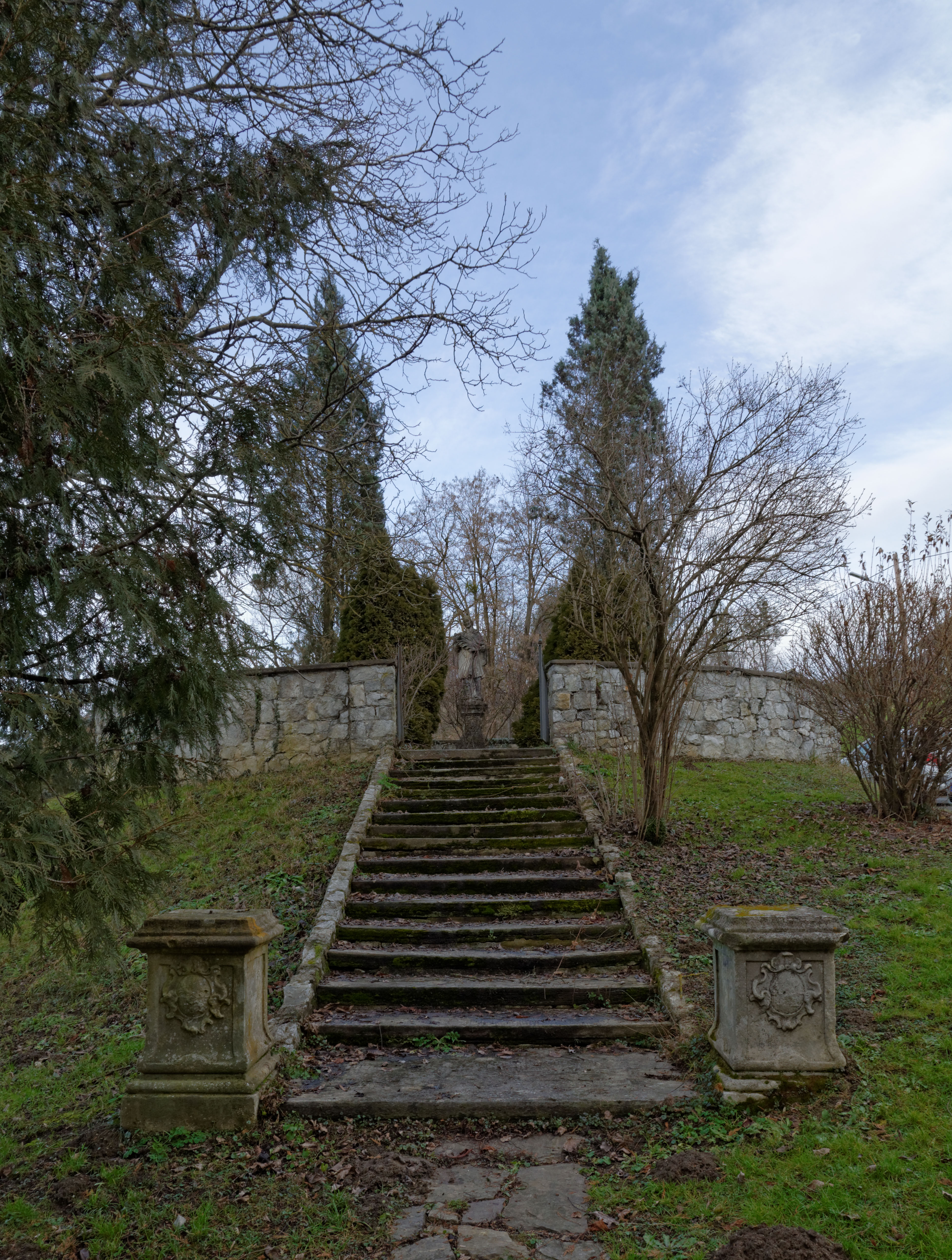 Tomb in Sankt Georgen an der Stiefing, Styria, Austria